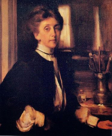 Selfportrait of Edith Mitchill Prellwitz, 1909.